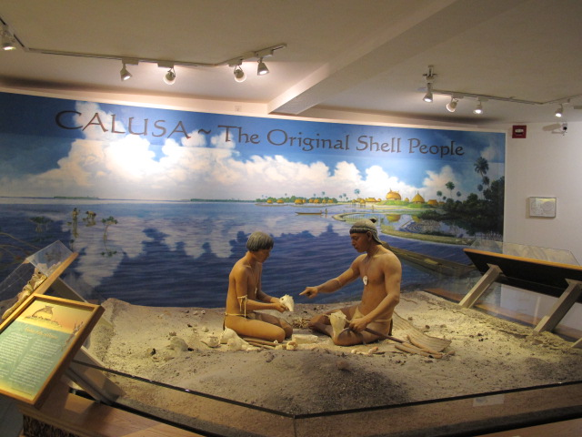 The shell museum exhibit showing how the Calusa people used the shells of the locally-occurring large whelks to form tools.